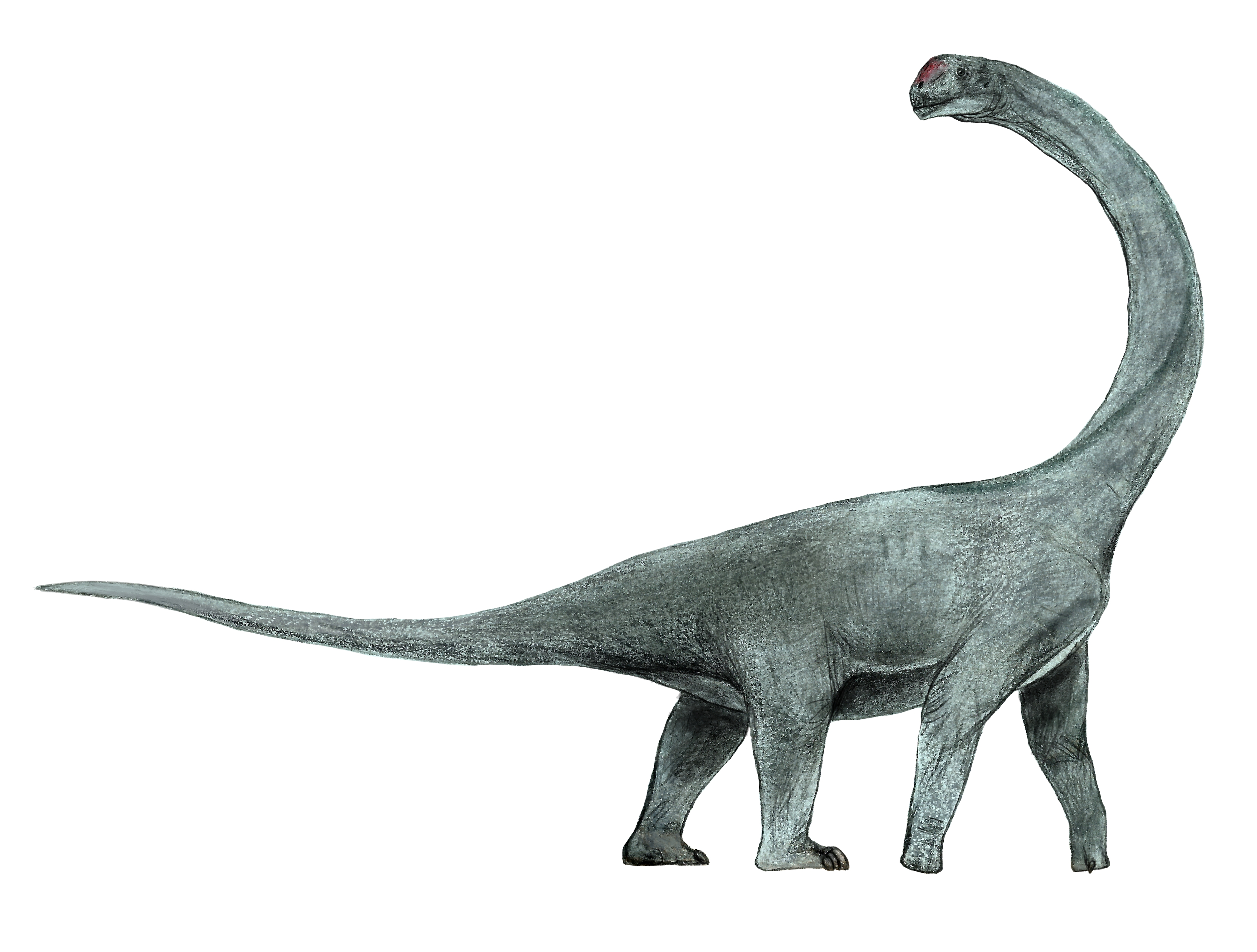 Restauration the Abrosaurus erivative works of this file